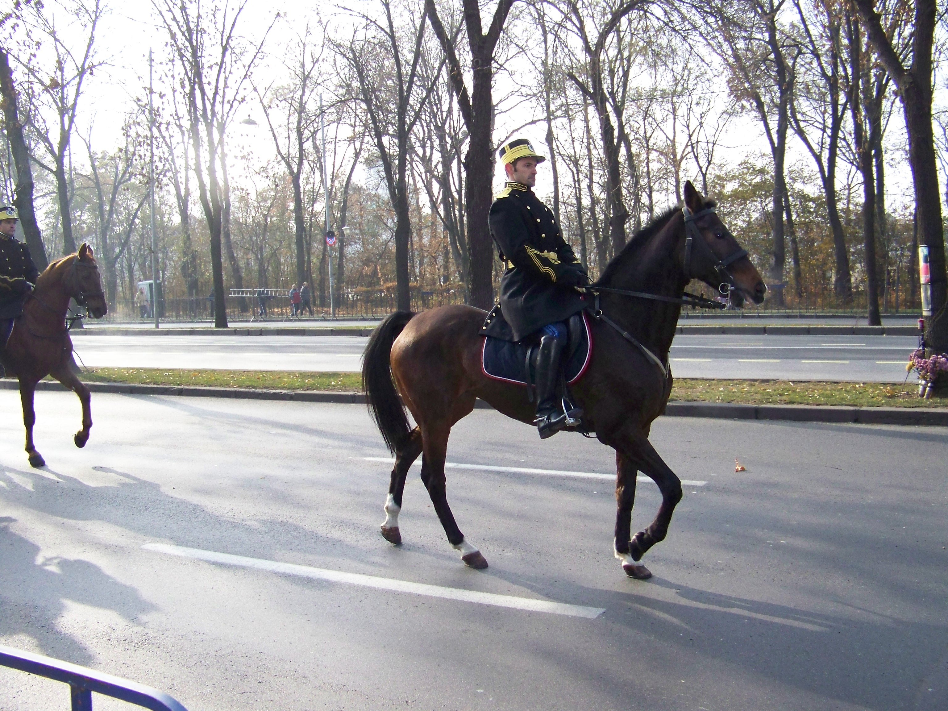 Mounted Gendarme in dress uniform